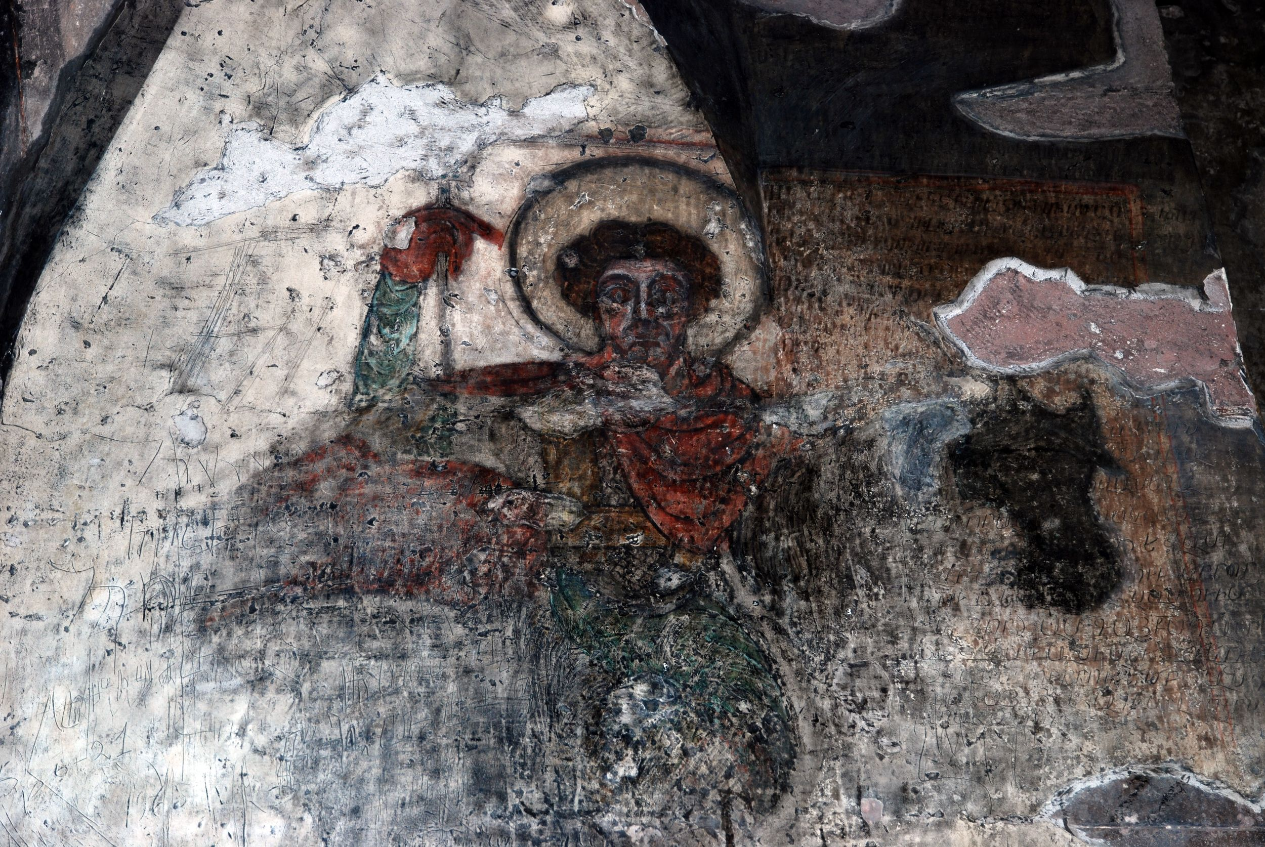 Lmbatavank, fresco north of apse